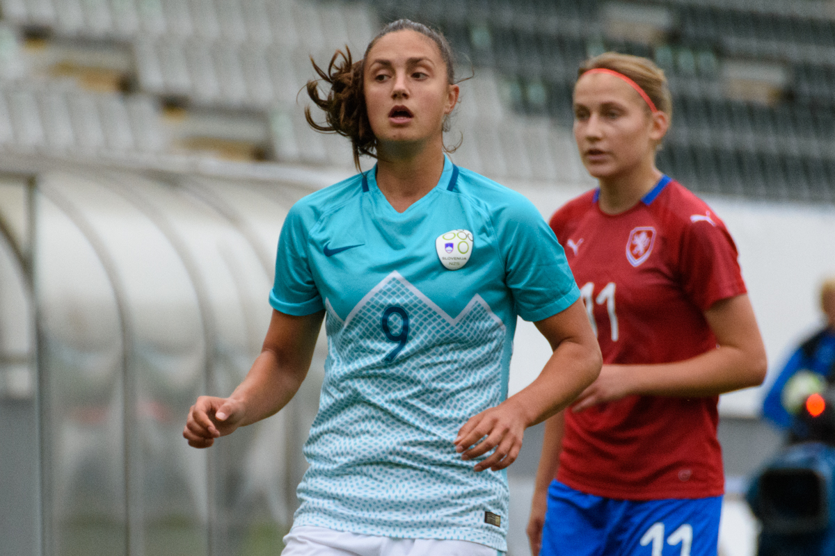 Adrijana Mori during the World Cup qualifier Czech Republic vs Slovenia